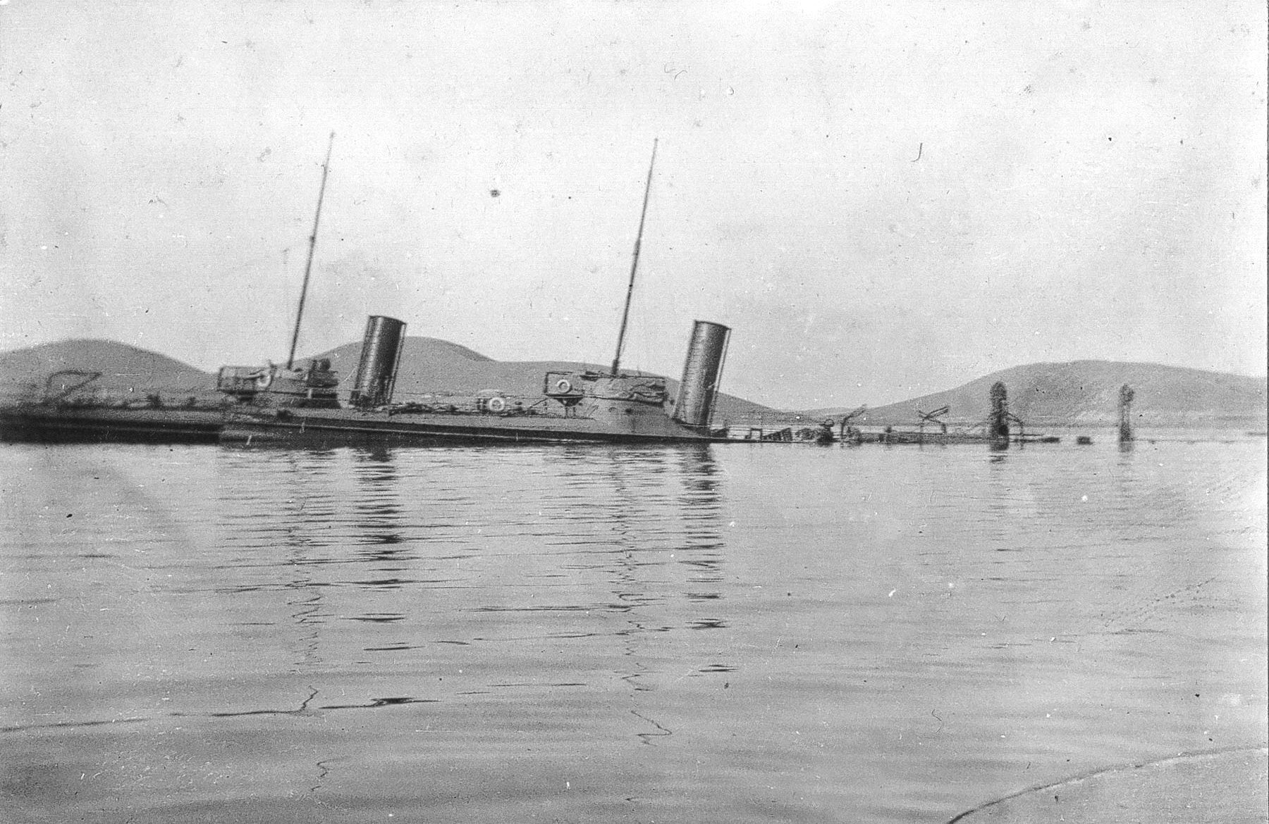 The Imperial Russian torpedo crusiers Gaydamak and Vsadnik at Port-Arthur December 1904.